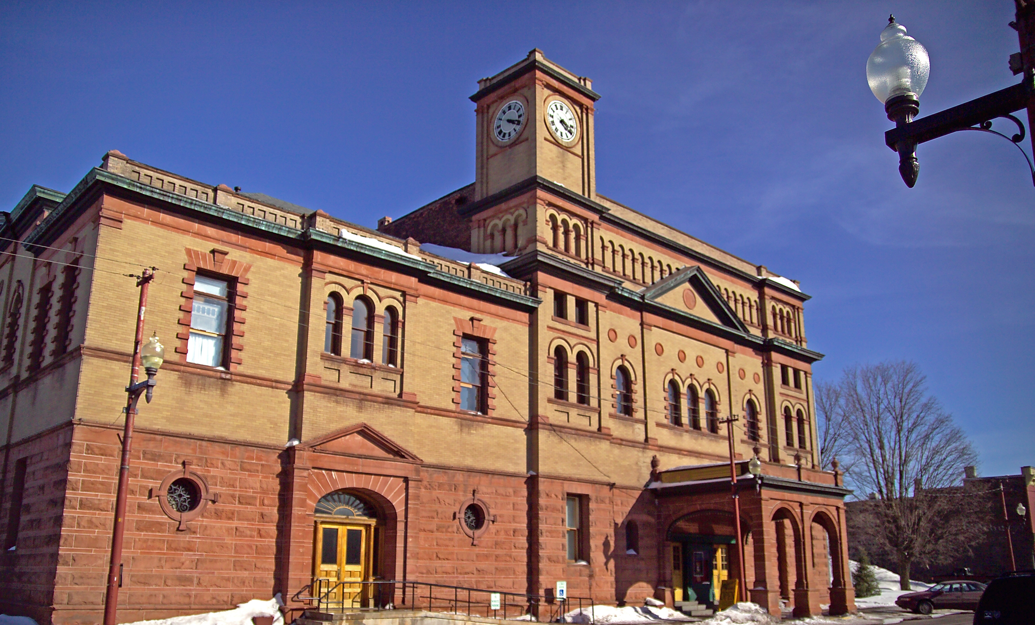 The Calumet Theatre in Calumet, Upper Peninsula, Michigan. Built in 1900, this historic opera house is open year-round and provides theater, music, opera, and dance. Within the Calumet Downtown Historic District, in the Keweenaw National Historical Park.